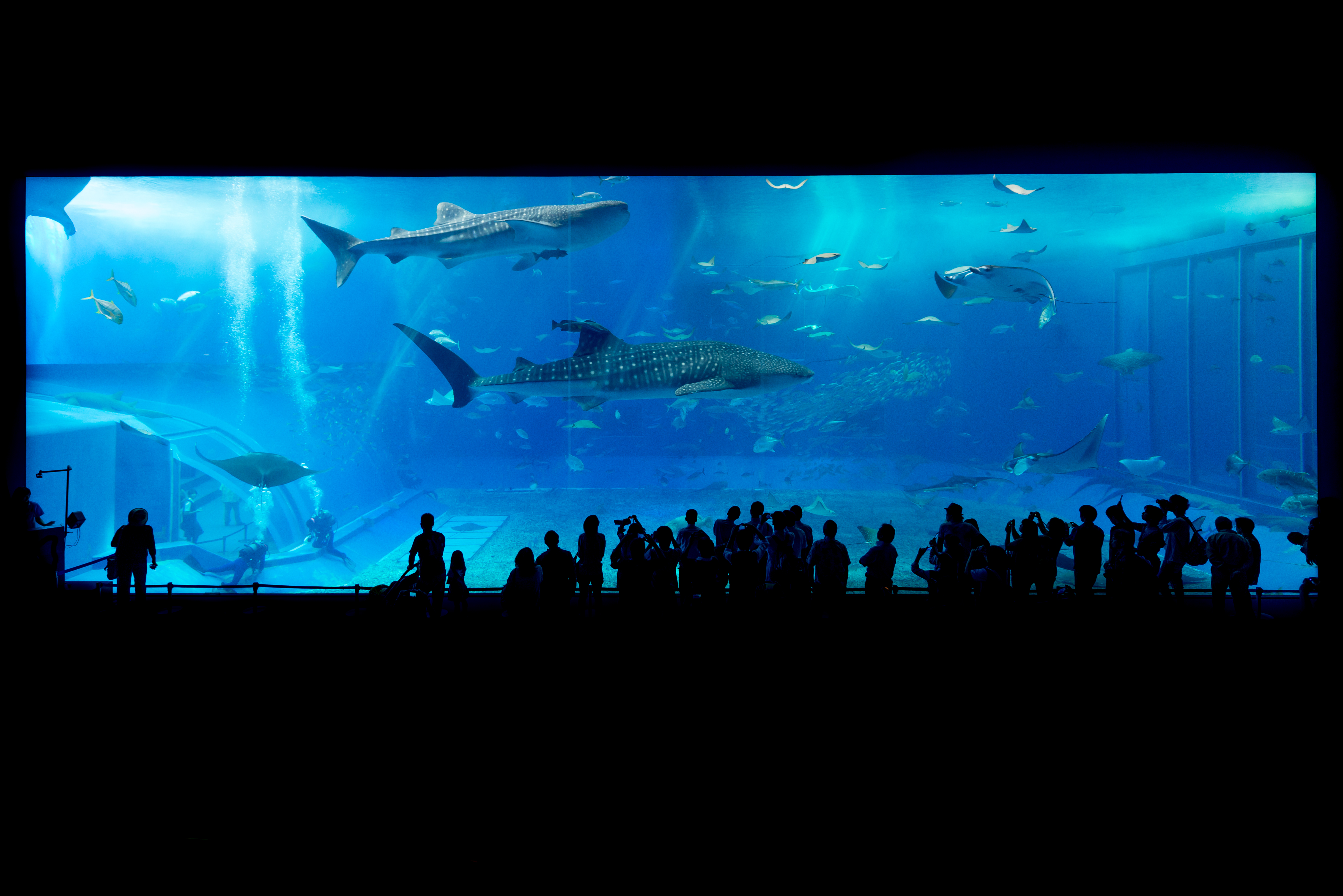 The Kuroshio Sea, the main tank of the Okinawa Churaumi Aquarium.